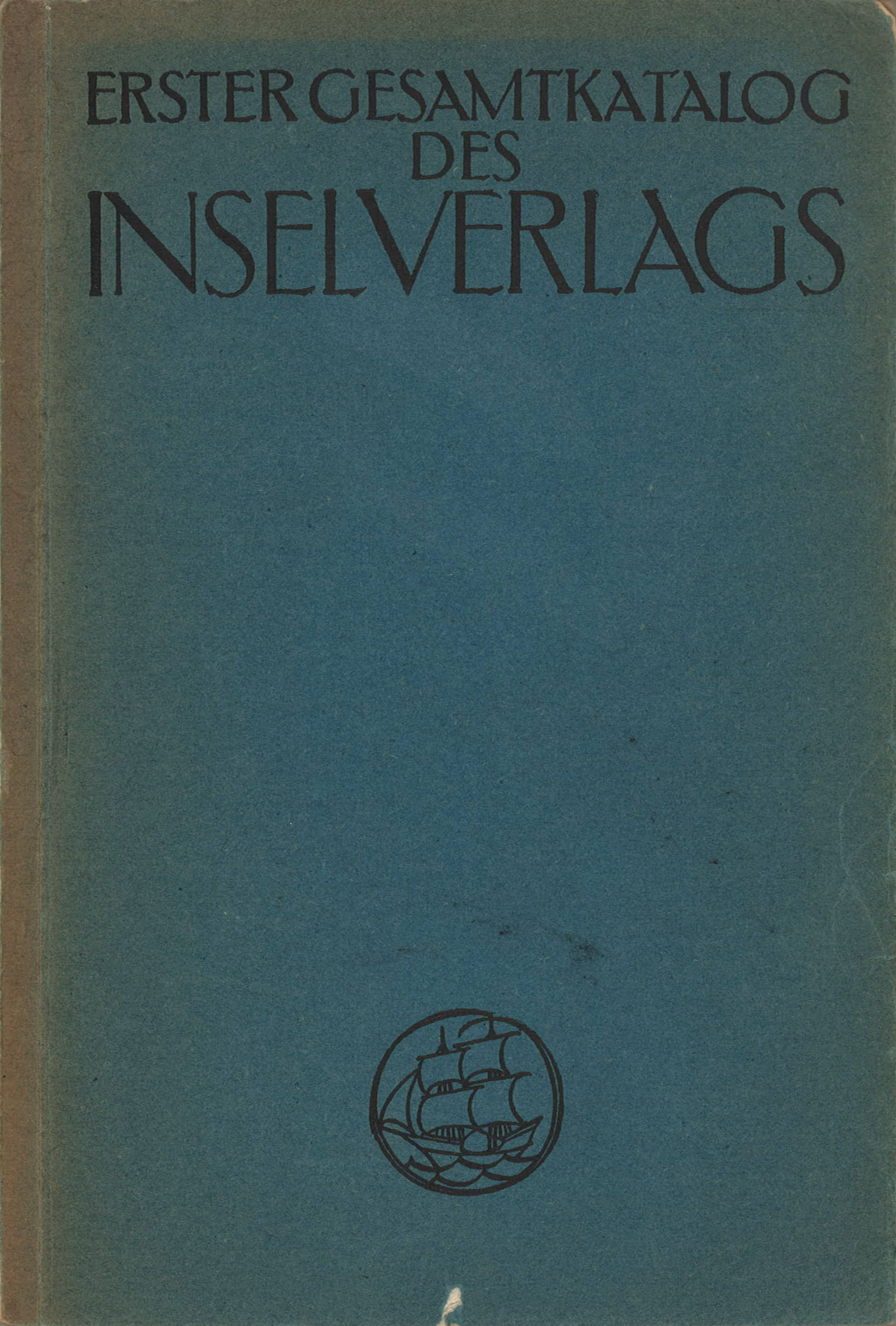 Frontcover of Insel Verlag's first total catalog of 1913